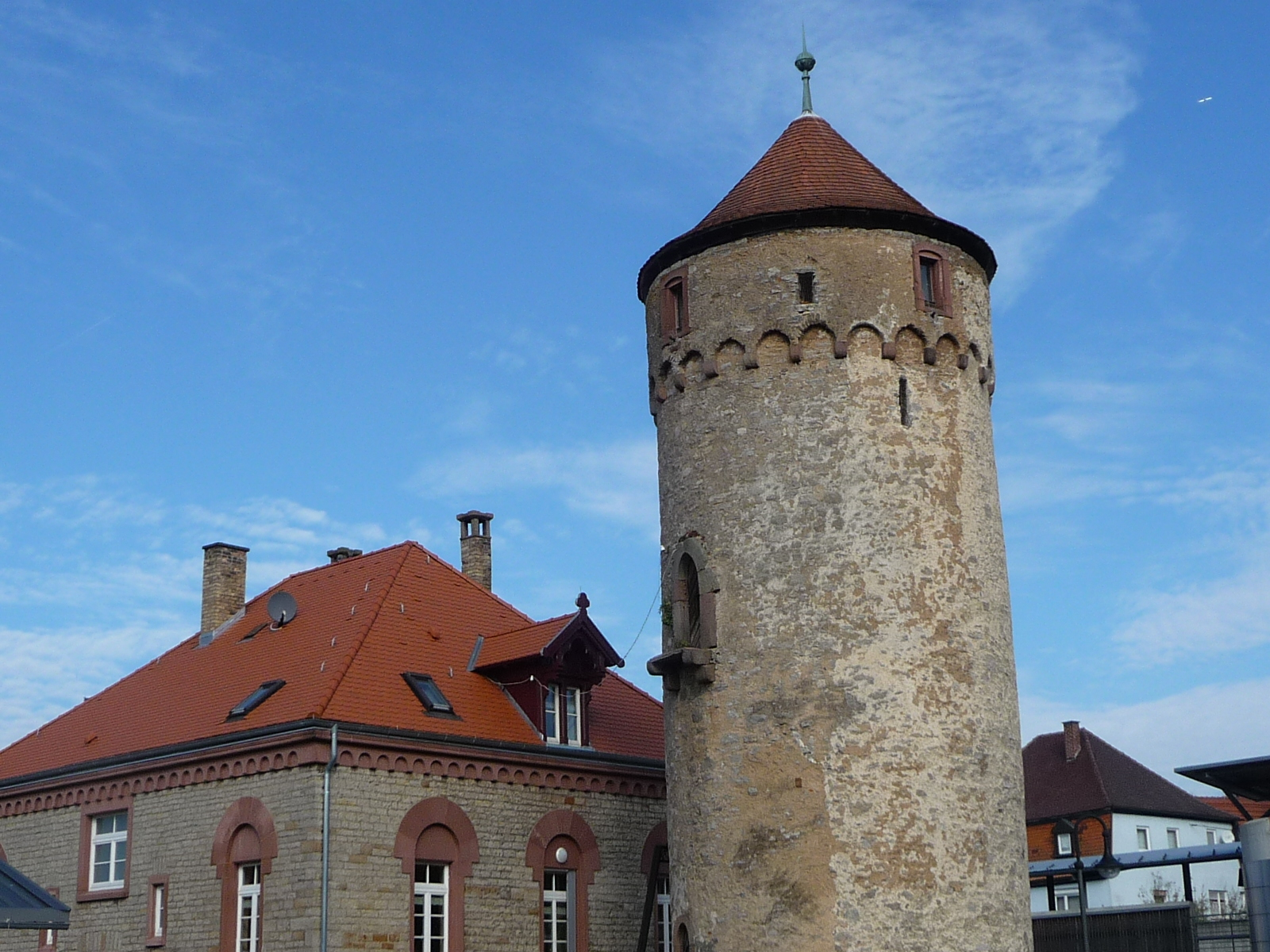 Osterburken